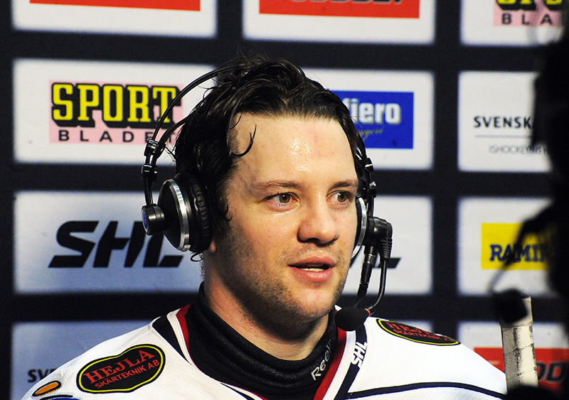 Pär Arlbrandt during a SHL game against AIK.